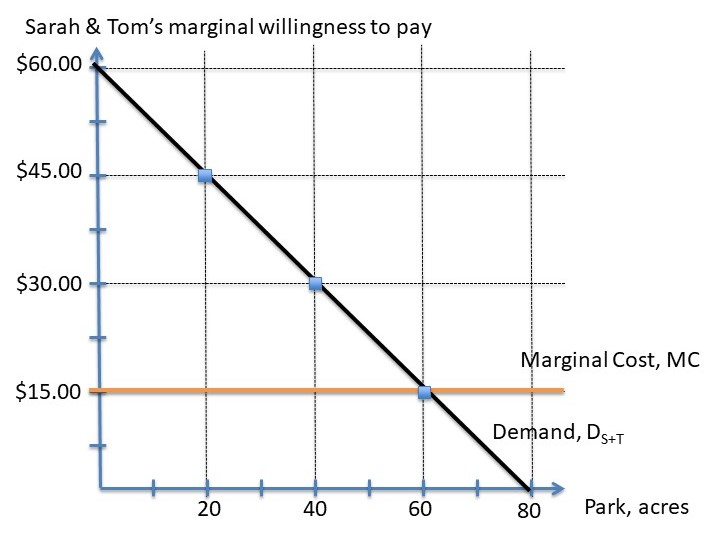 This is a graph of the aggregate willingness to pay for the two individuals.